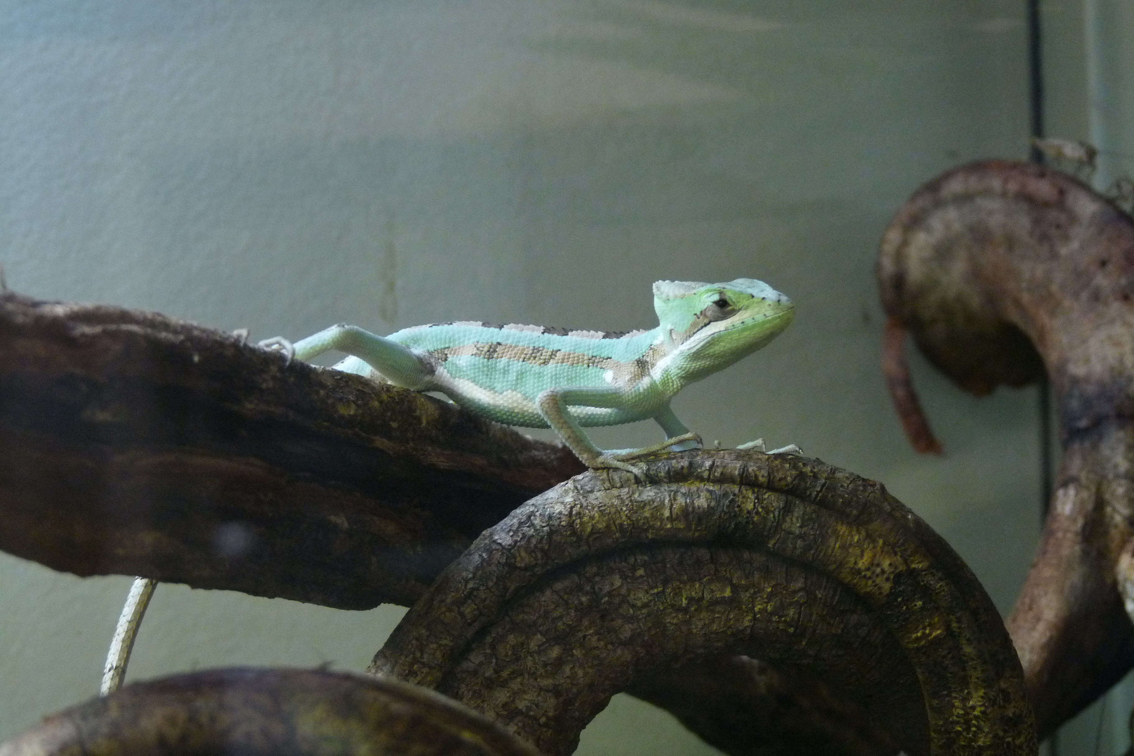 Laemanctus serratus in captivity